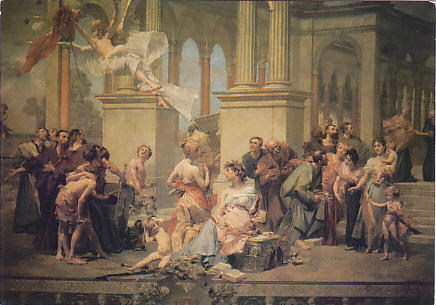 Painted curtain of the National Theatre, Prague, Czech republic